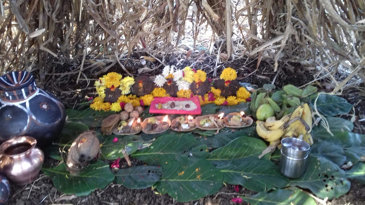 worship of agricultural deity